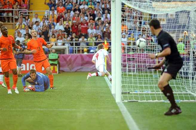 UEFA Euro 2012 match between Netherlands and Denmark that took place in Kharkiv. Final result was 0:1 (Krohn-Delhi)Jetro Willems (15), Ron Vlaar (13) and Maarten Stekelenburg (1), all Netherlands, and Michael Krohn-Dehli (9), Denmark